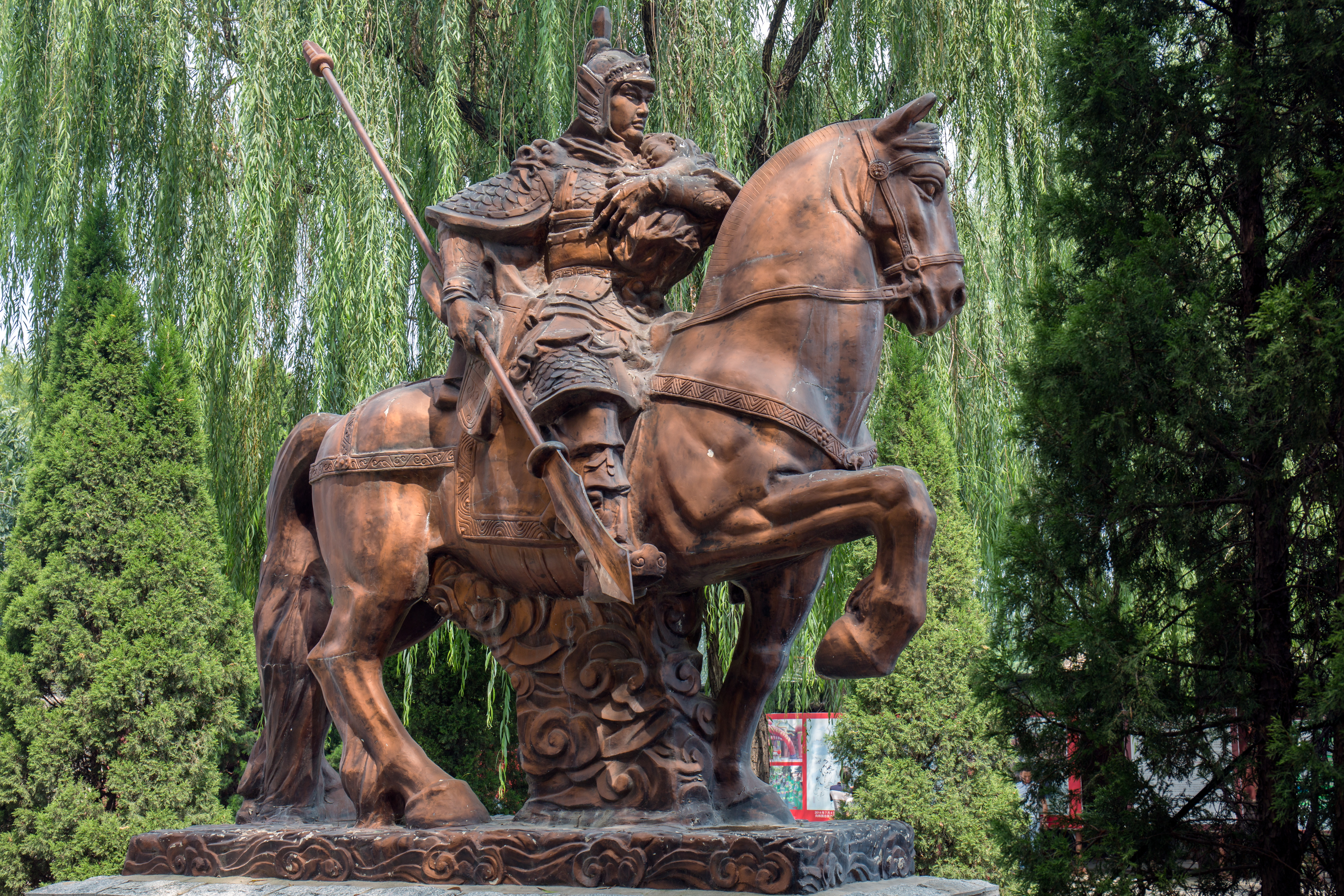 Zhao Yun equestrian statue